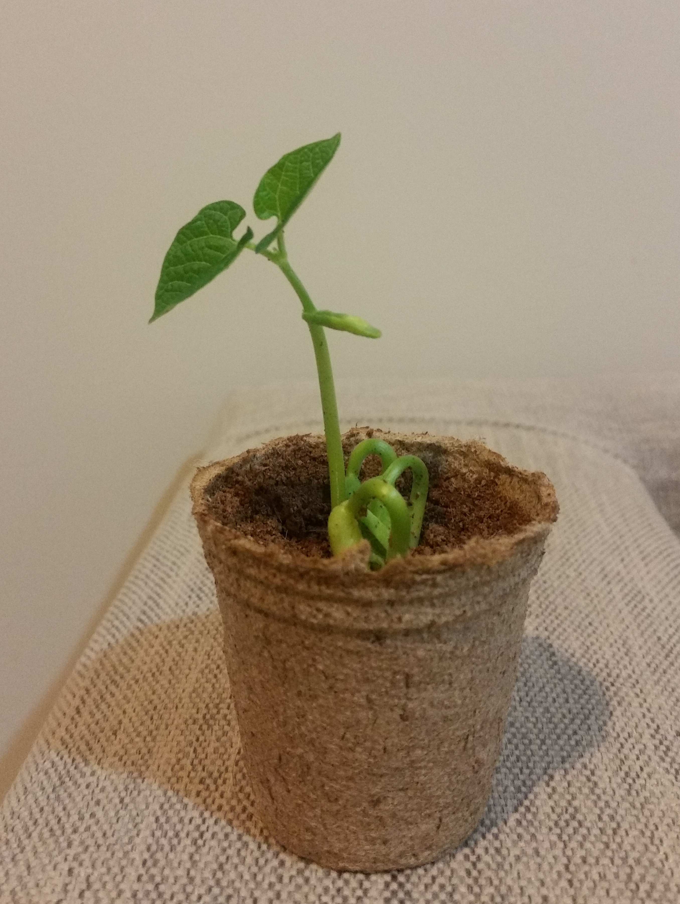 Seedling of the common bean (Phaseolus vulgaris), yellow variety in a paper starter cup.